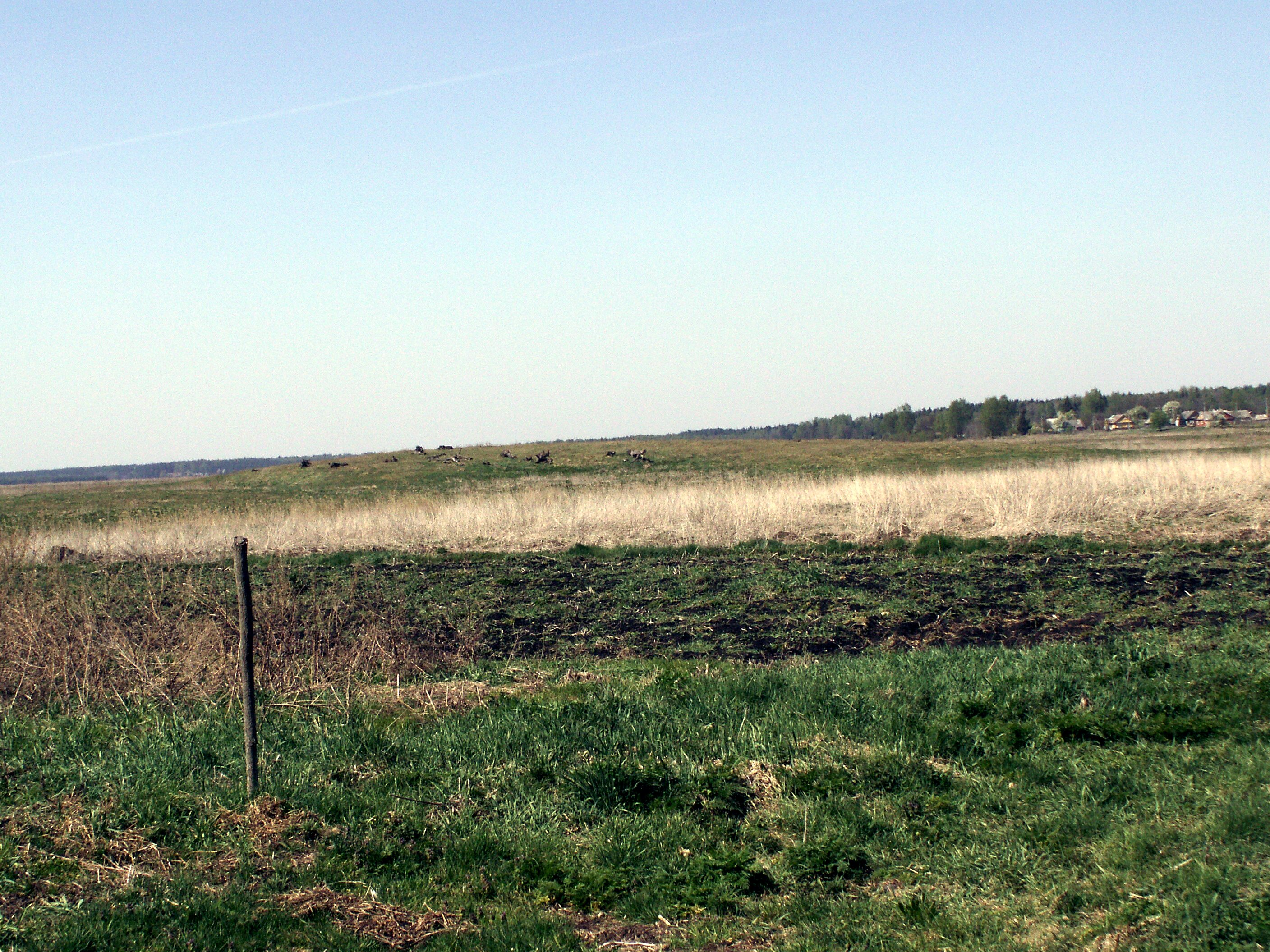 Dubičių arceological settlement, Varėna district, Lithuania